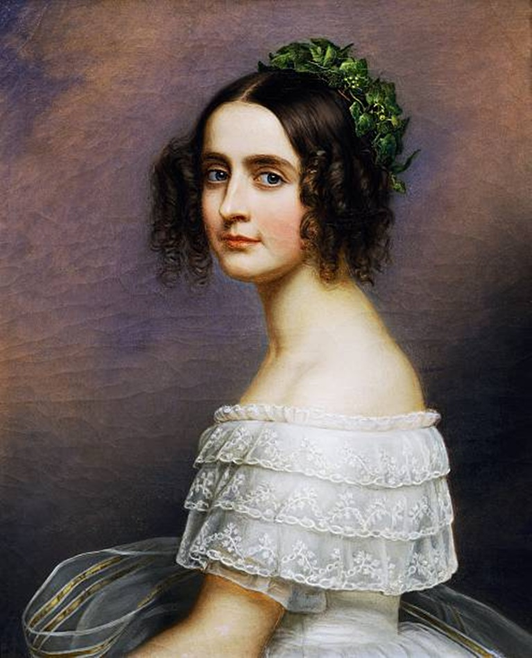 Portrait of Alexandra Amalie von Bayern (1826-1875)